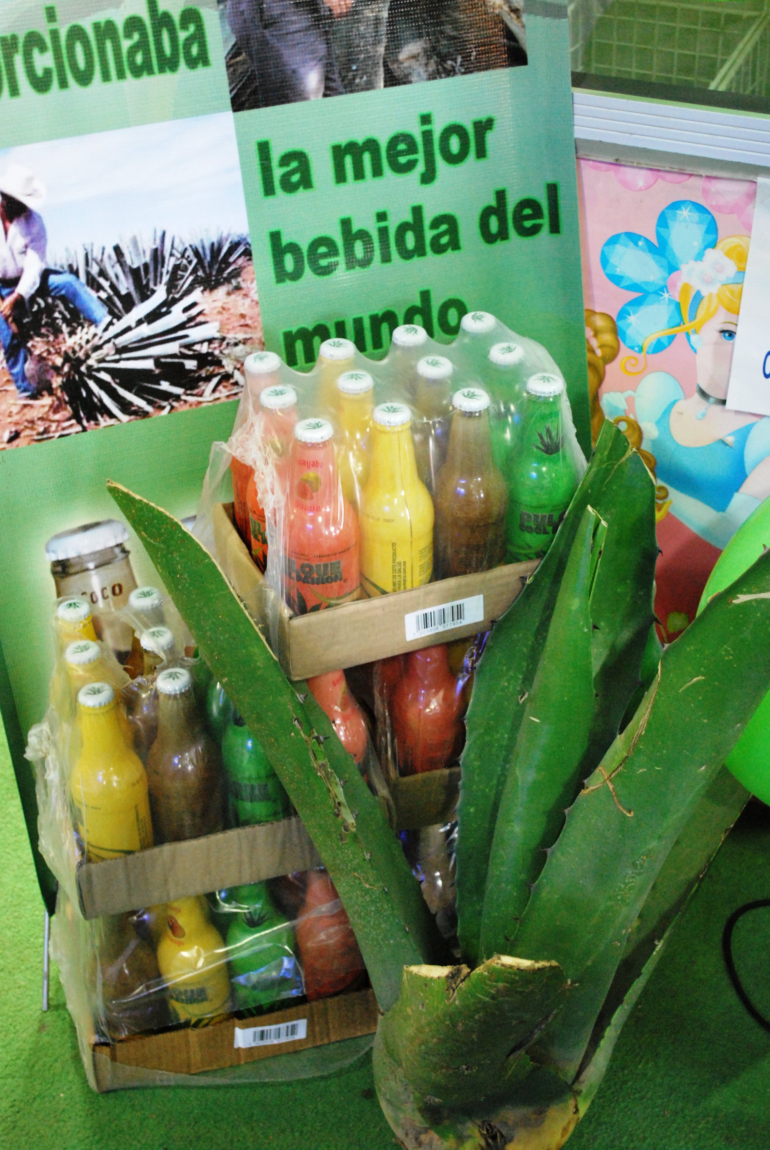 Bottled pulque in various flavors at the Feria de Hidalgo in Pachuca, Hidalgo, Mexico